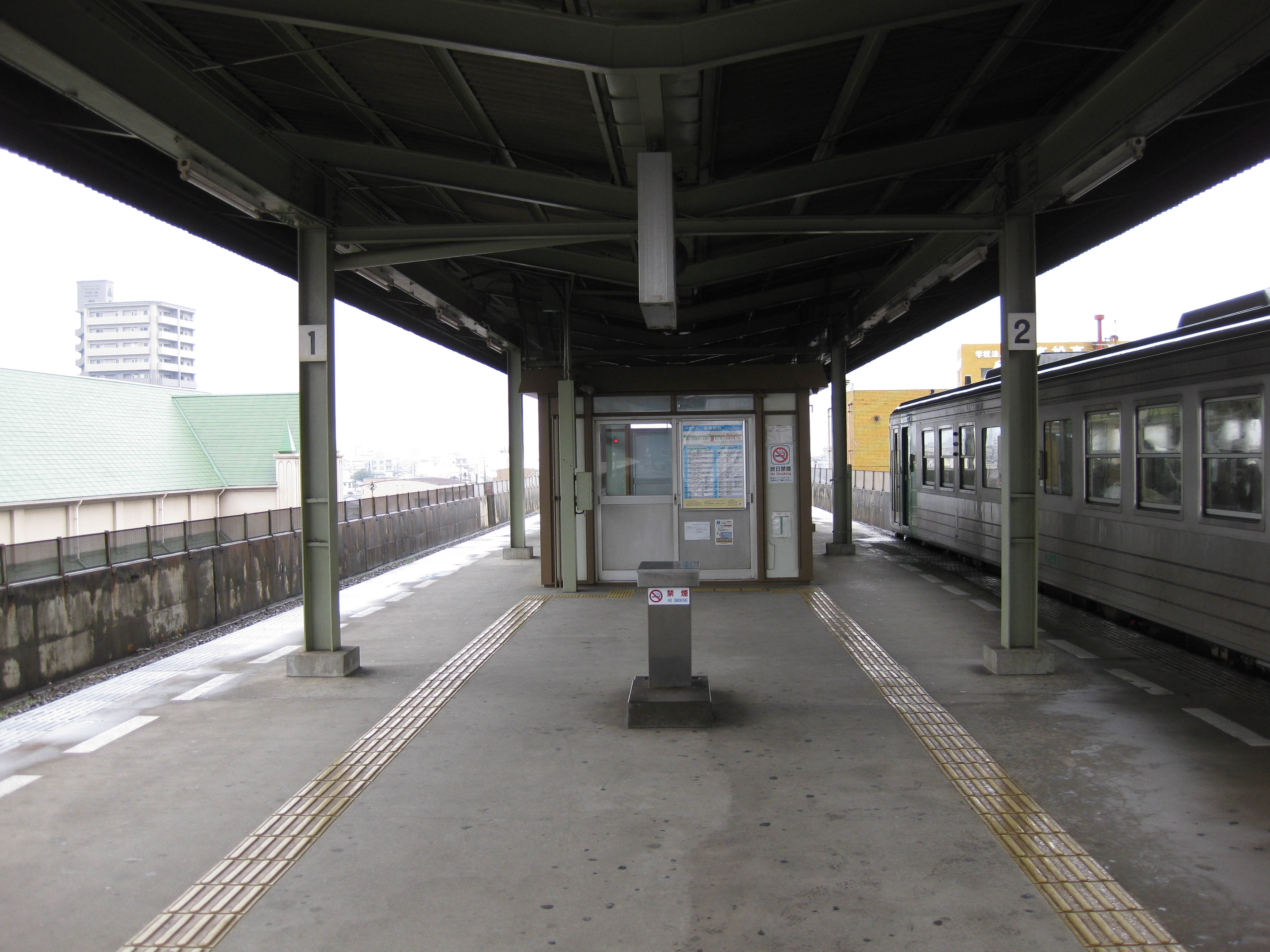 JR Ritsurin Station. Takayama, Kagawa, Japan.